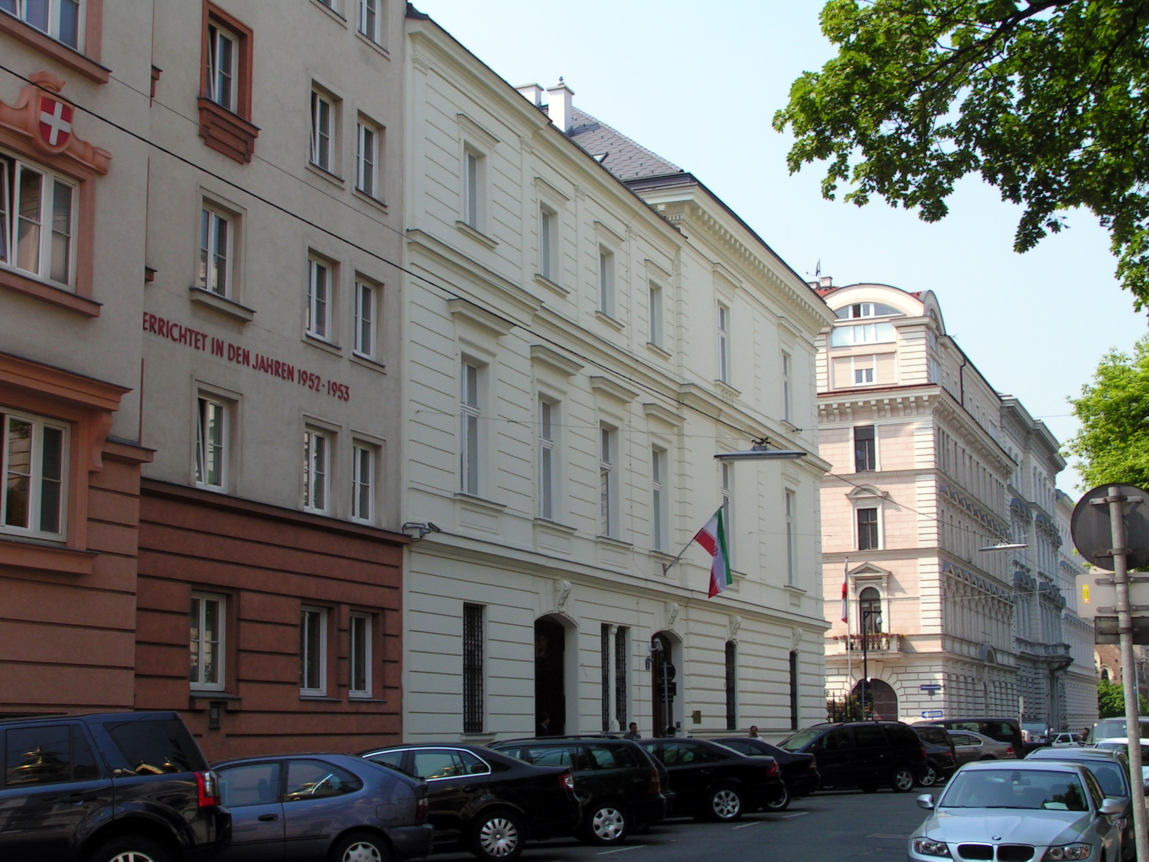 Palais Sigray St. Marsan in Vienna Reisnerstraße 49/Haurèsgasse, Embassy of Iran